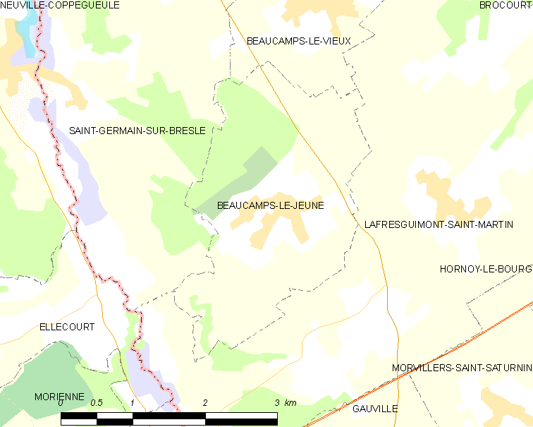 Map of French municipality Beaucamps-le-Jeune